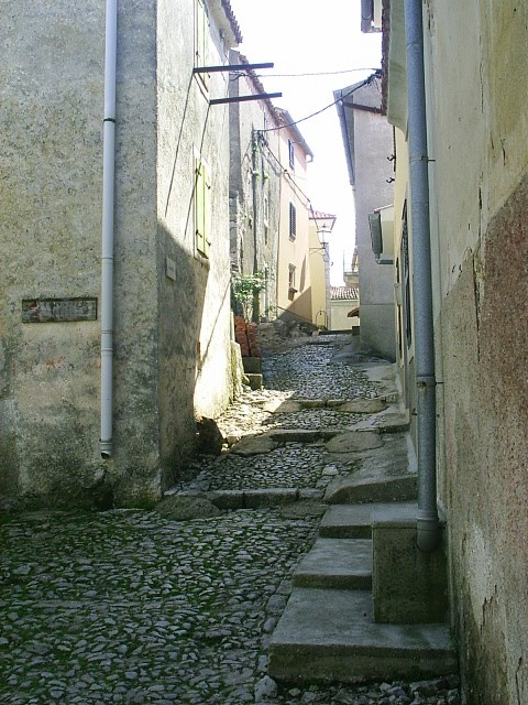 A town of Beli at the Cres Island, Croatia